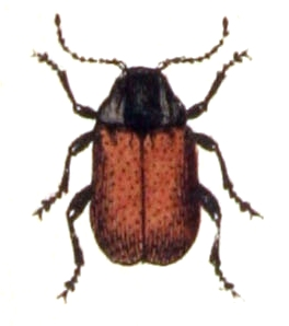 Cryptocephalus coryli, from Calwer's Käferbuch, Table 45, Picture 18. Taxonomy was updated to 2008, using mostly the sites Fauna Europaea and BioLib. Please contact Sarefo if the determination is wrong!